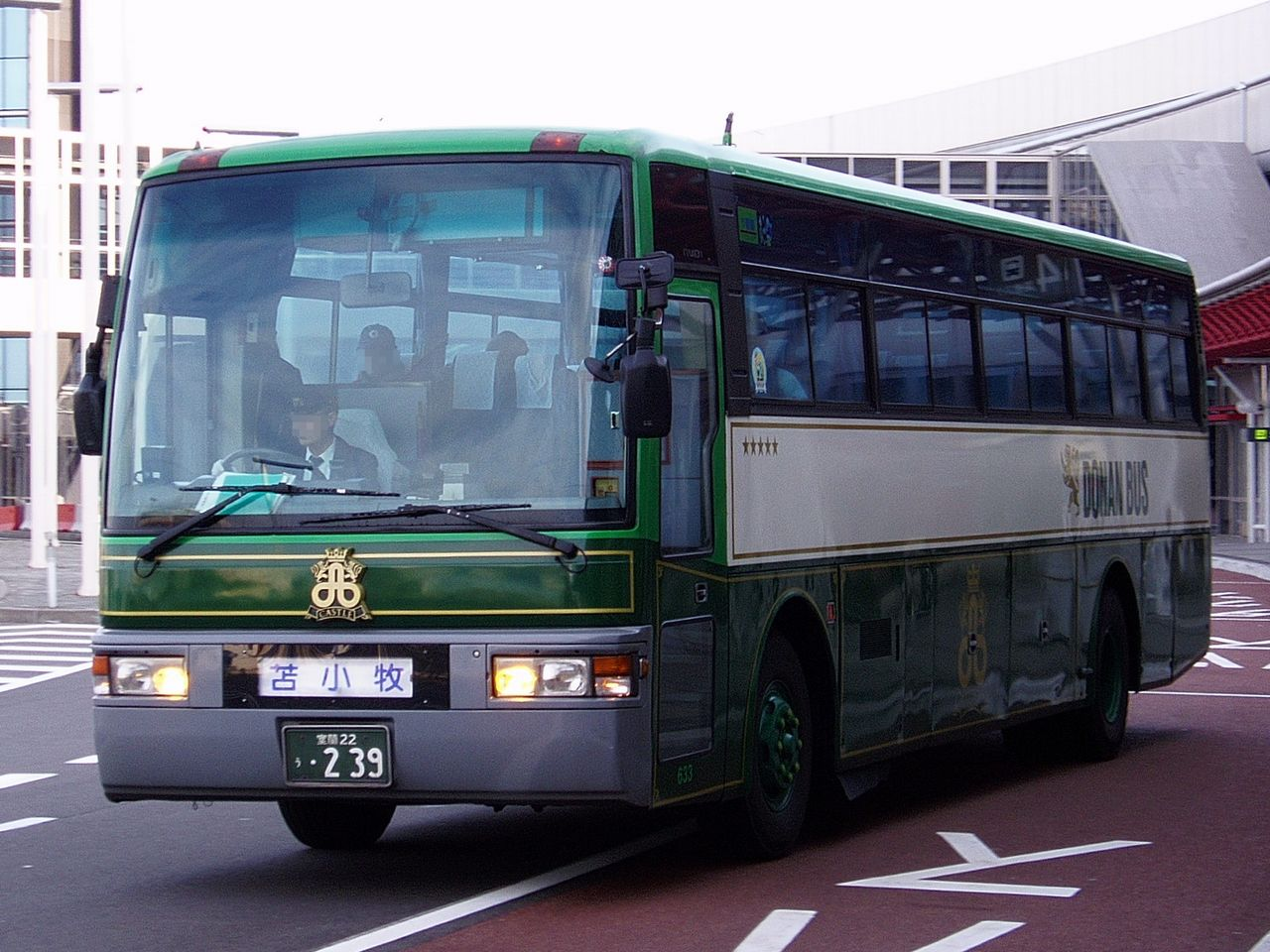 Donan Bus Nissan Diesel at New Chitose Airport